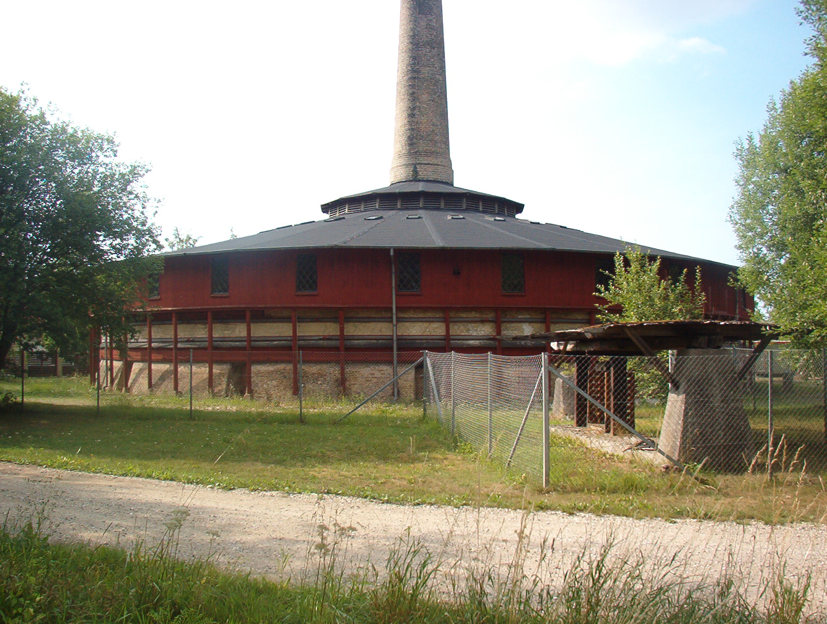 Nivaagaard Teglværks ring kiln, is as frar know the oldest stil existing in the world